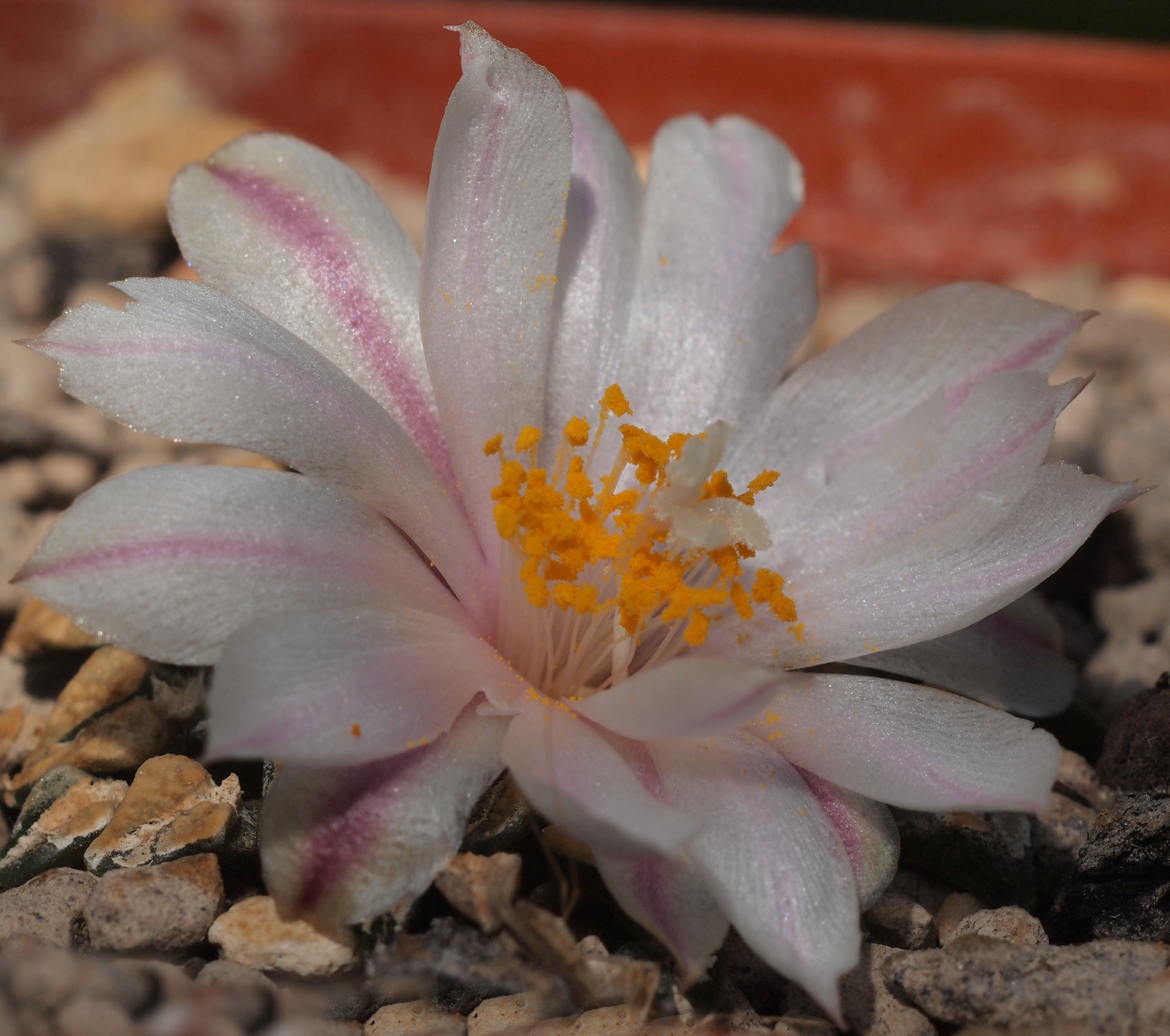 Ariocarpus kotschoubeyanus v. albiflorus